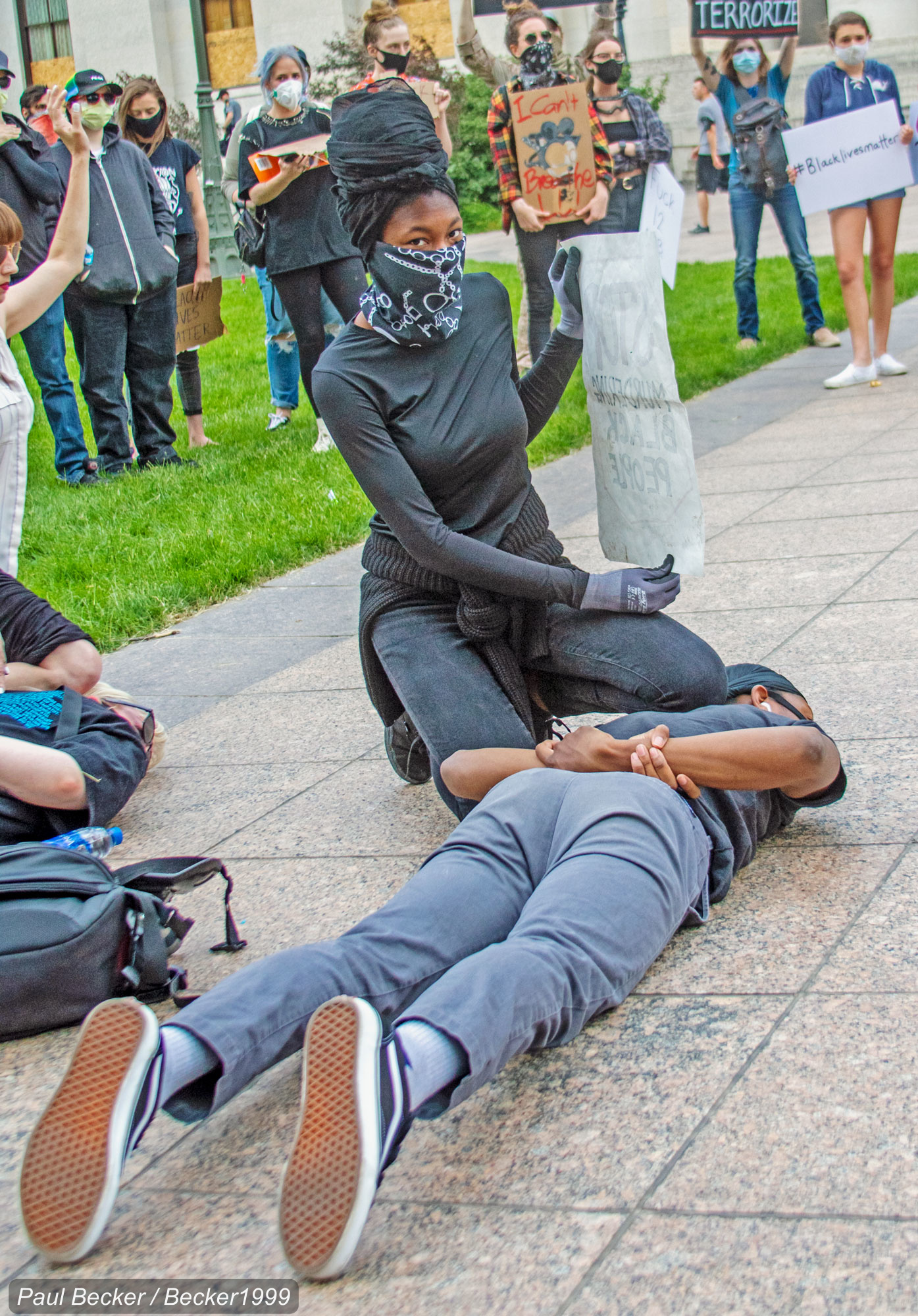 Downtown Columbus Protests: Day 5